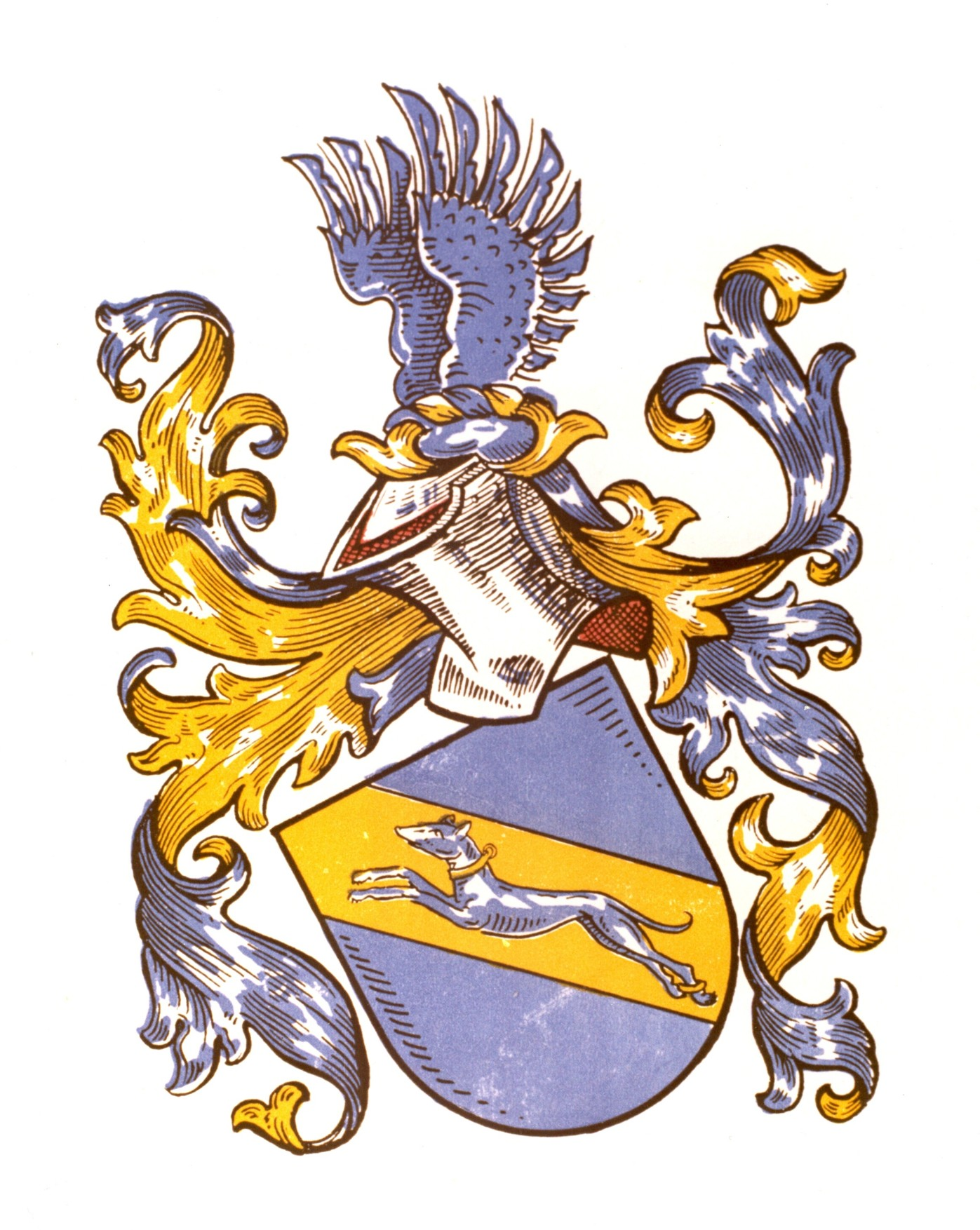 Coat of arms given to Michael Huttenloch as reeve of Koengen (Baden-Wuerttemberg, Germany) by the Emperor of the Holy Roman Empire Ferdinand I. at the Imperial Diet at Augsburg in the year 1559